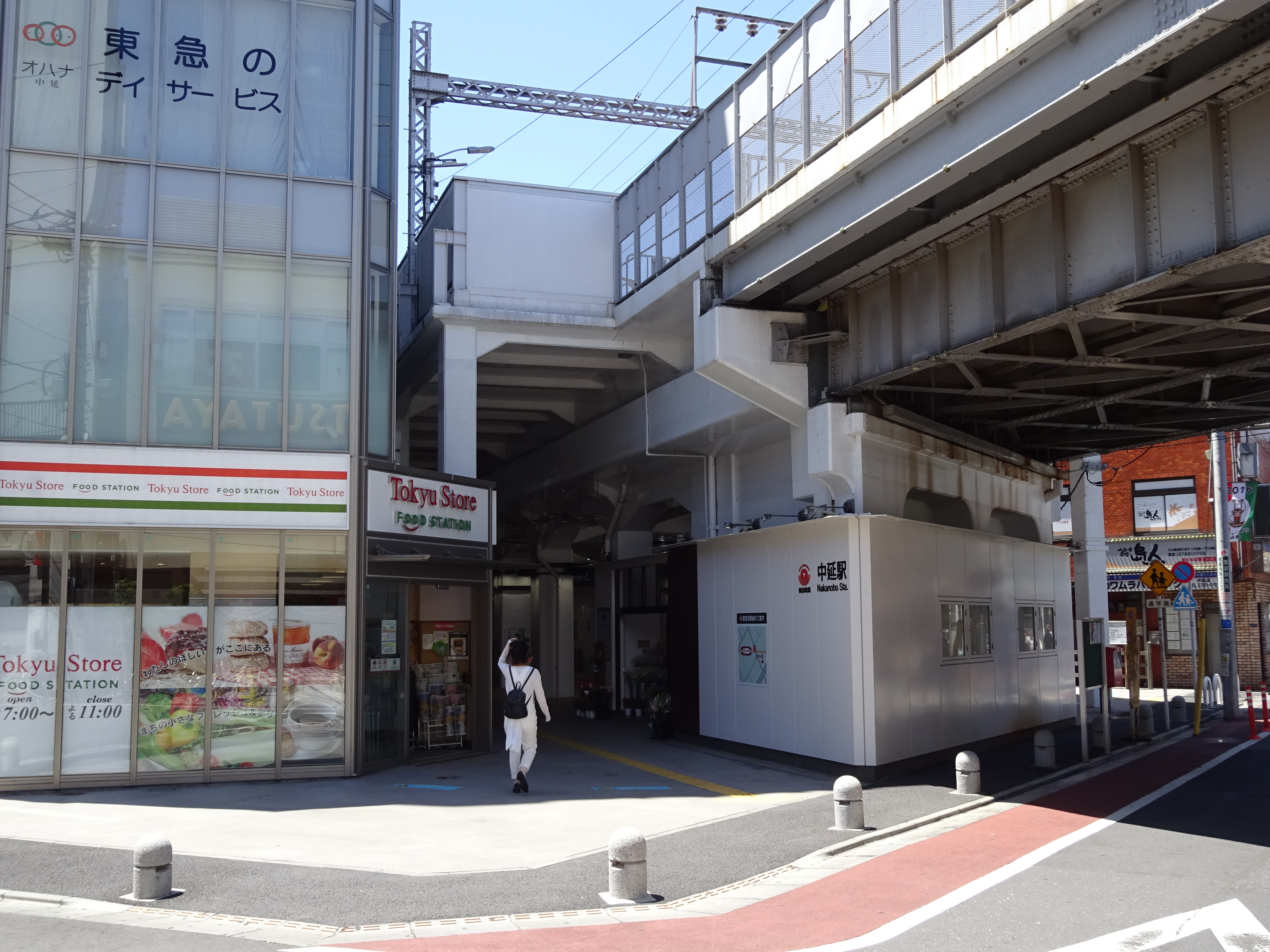 Nakanobu Station